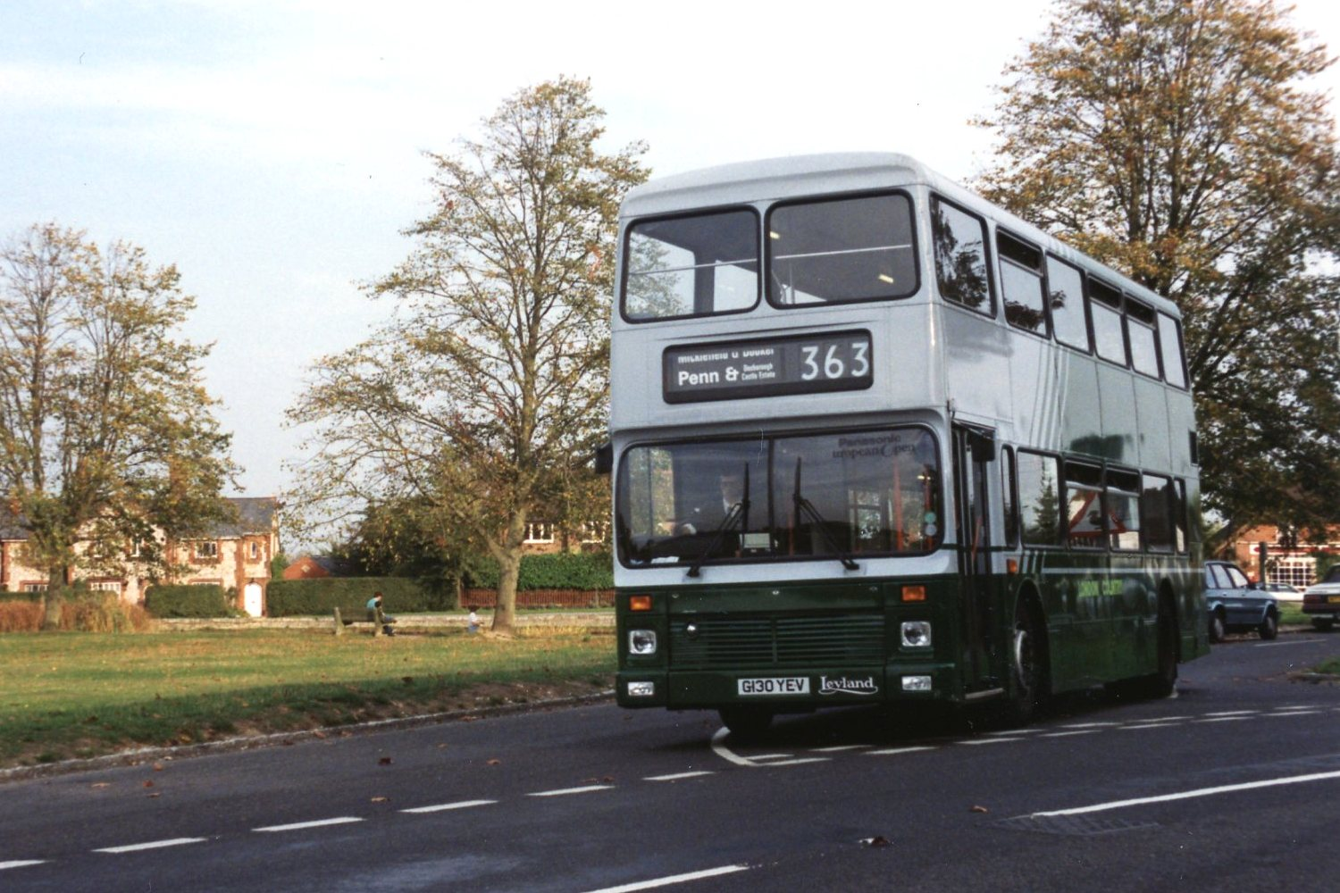 London Country North West LRL30 (G130 YEV), a then newly-delivered Leyland Olympian, at Penn in October 1990, shortly before the company was taken over by Luton & District. It and the bus are now part of Arriva the Shires & Essex.